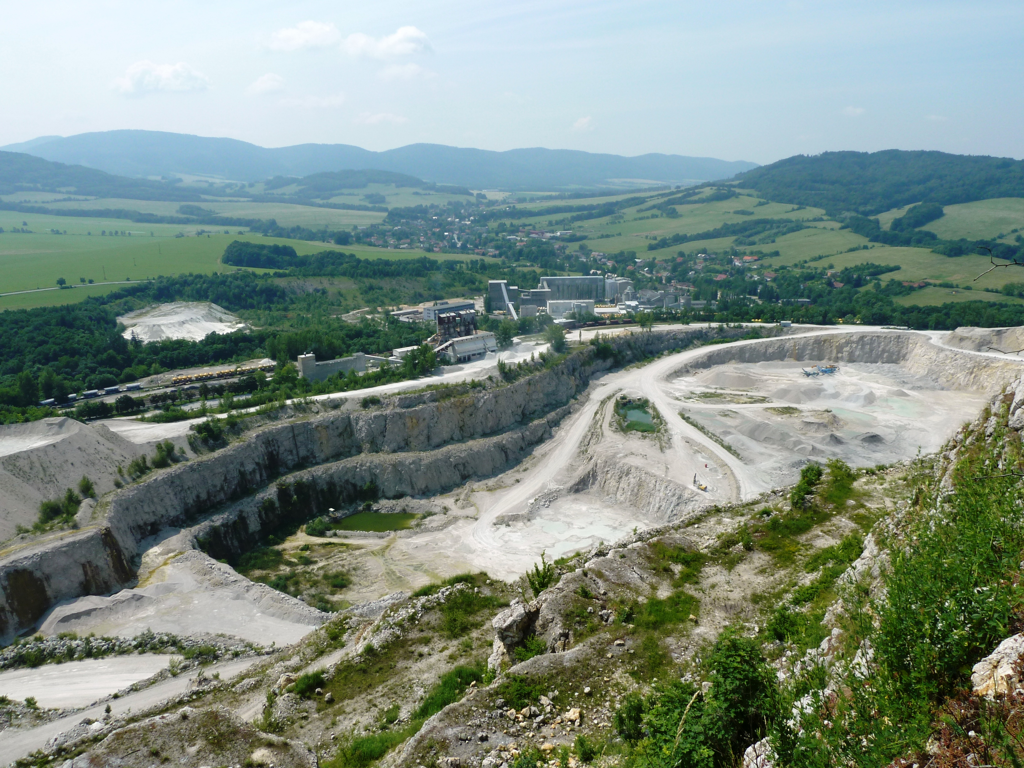 The quarry "Kotouč Štramberk". It is located on the edge of town Štramberk (north Moravia, Czech Republic) and it partialy destroyed hill Kotouč.